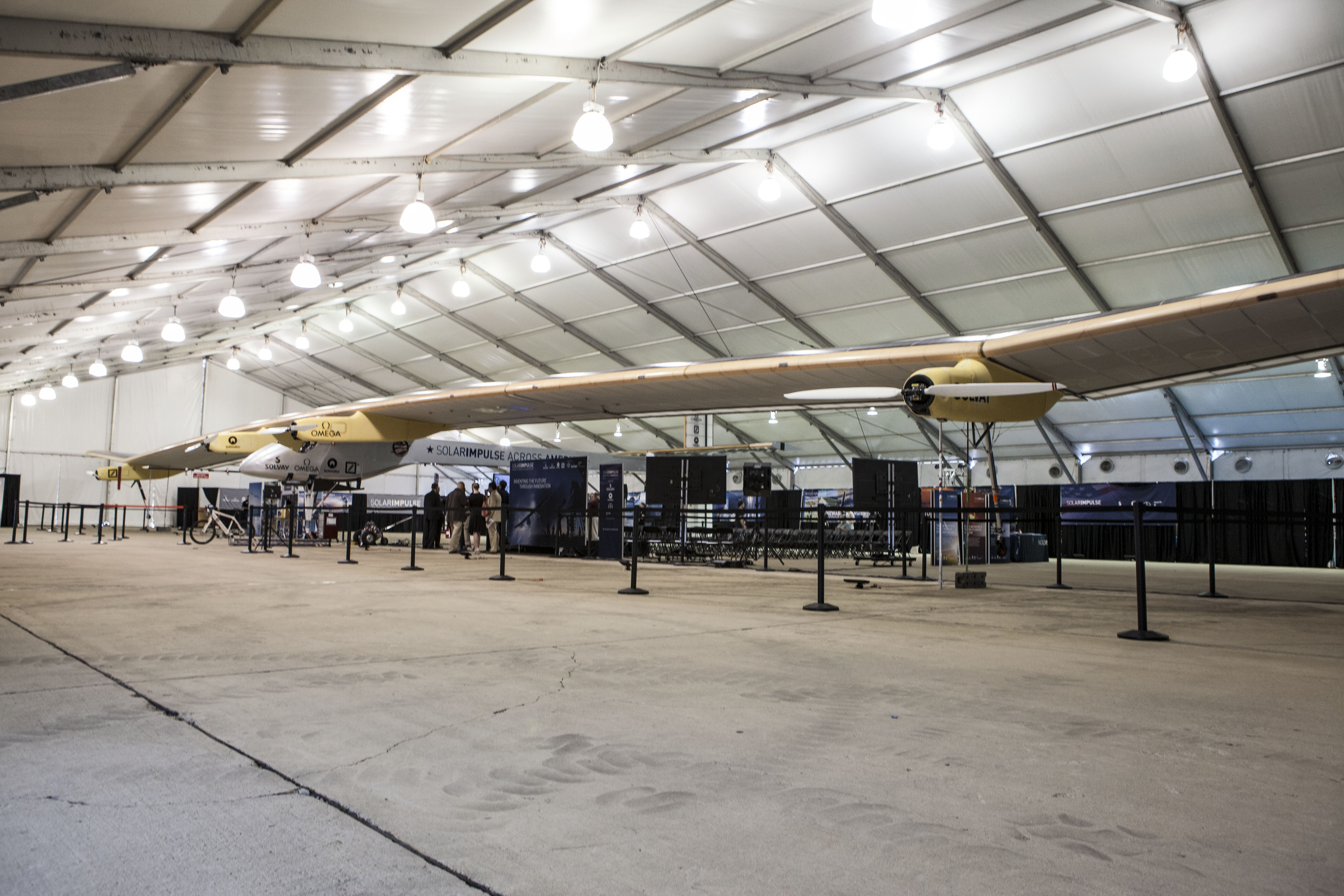 Today, Solar Impulse unveiled its solar power plane to Washington, D.C. The plane landed at Dulles International Airport on Sunday, June 16, 2013. Photo by Sarah Gerrity, Department of Energy.